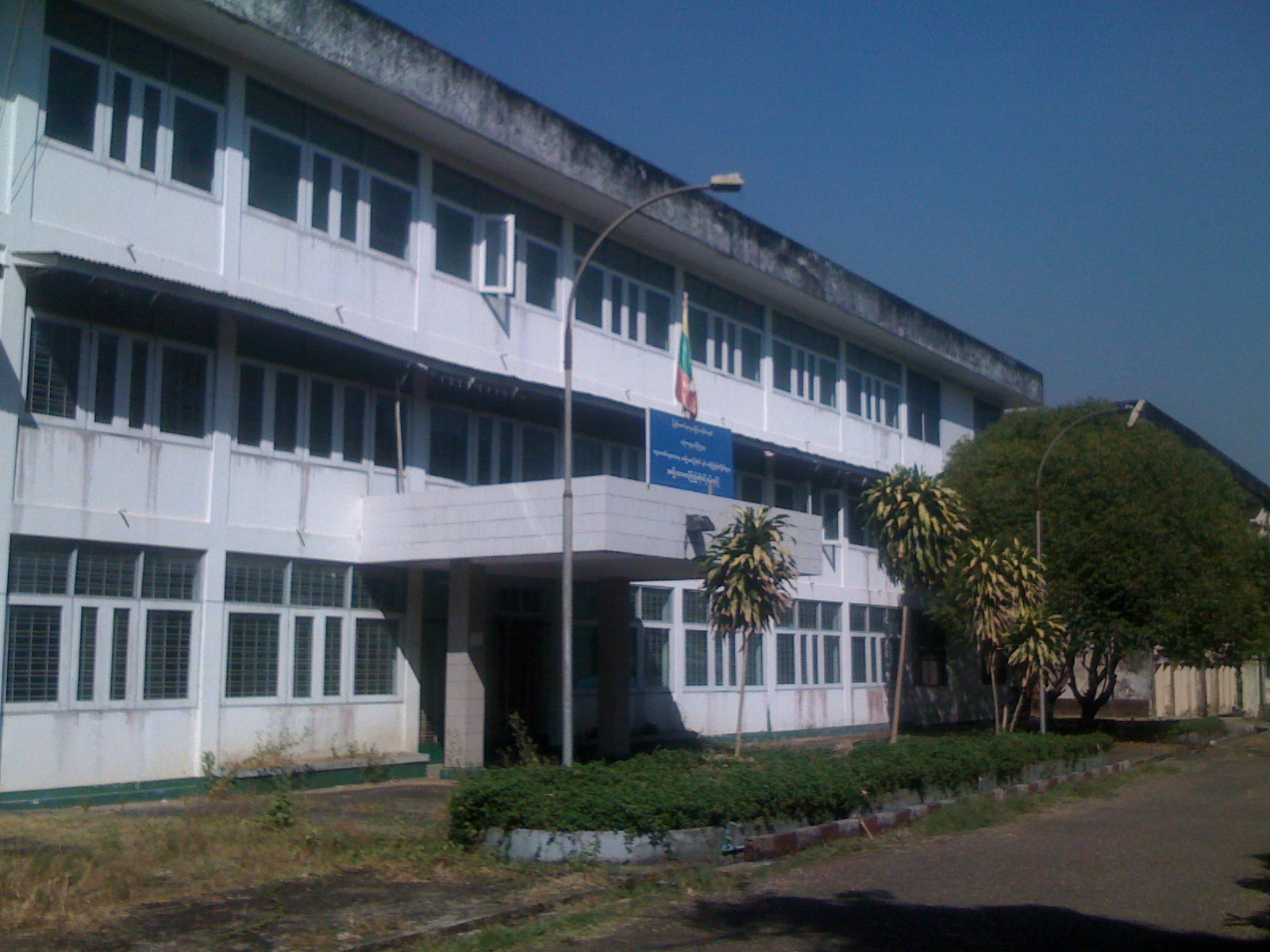 The National Library of Myanmar, located in Yankin township, Yangon, is the national library of Myanmar. Established in 1952, the National Library, along with Yangon University Library, is one of only two research libraries in Yangon. The library houses more than 220,000 books, divided into 10 sections. Its collection used to be about 618,000 books and periodicals as well as 15,800 rare and valuable manuscripts. However, in 2006, the military government announced a plan to move a large part of its collection to a new National Library in Naypyidaw, and to auction off its 8-story building and 10-acre (40,000 m2) lot in Tamwe township. In October 2008, the National Library was moved to its current location. The library's current collection of ancient Burmese texts includes 16,066 palm-leaf inscriptions, 1972 parabaik (folded writing tablets made of paper, cloth or metal), and 345 handwritten scripts of famous writers. The library's preservation and conservation section, established in 1993, regularly maintains rare Burmese manuscripts. The library plans to offer an online catalog. The National Library is a member of the International Federation of Library Associations and Institutions and National Libraries Group-Southeast Asia. The National Library originated from the Bernard Free Library, which opened in 1883 during the British colonial era. The Bernard Library was renamed the State Library under the management of the Ministry of Culture in 1952, and changed its name to the National Library in 1967. The library was first located in the Jubilee Hall building, then moved to Pansodan Road, then relocated to its penultimate home in Tamwe, and finally moved to its present location in Yankin in October 2008.